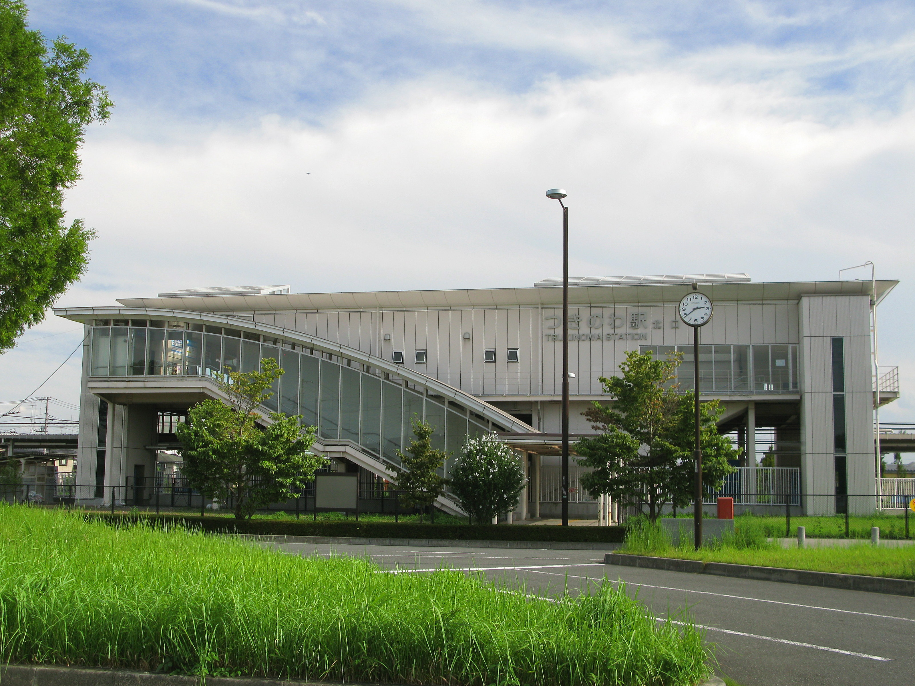 North entrance of Tsukinowa Station on the Tobu Tojo Line in Saitama Prefecture, Japan